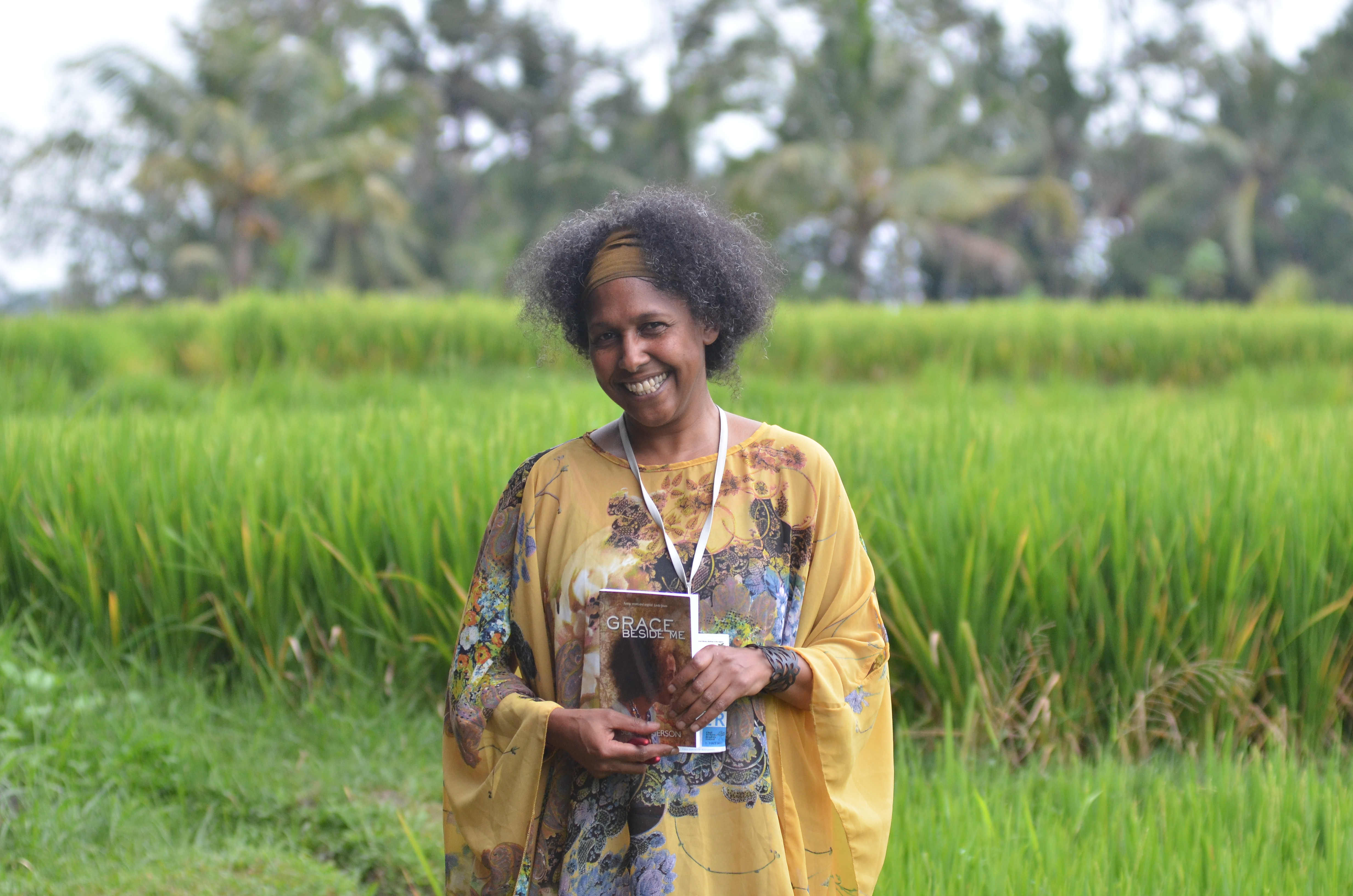 Ubud Writers & Readers Festival 2012. Image credit Anggara Mahendra.